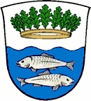 Coat of Arms of Hohnstorf (Elbe) First upload in de-wp: Winno41 (18:20, 8. Okt. 2006)